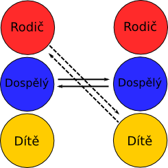 Duplex or Covert transactions, of Transactional analysis.